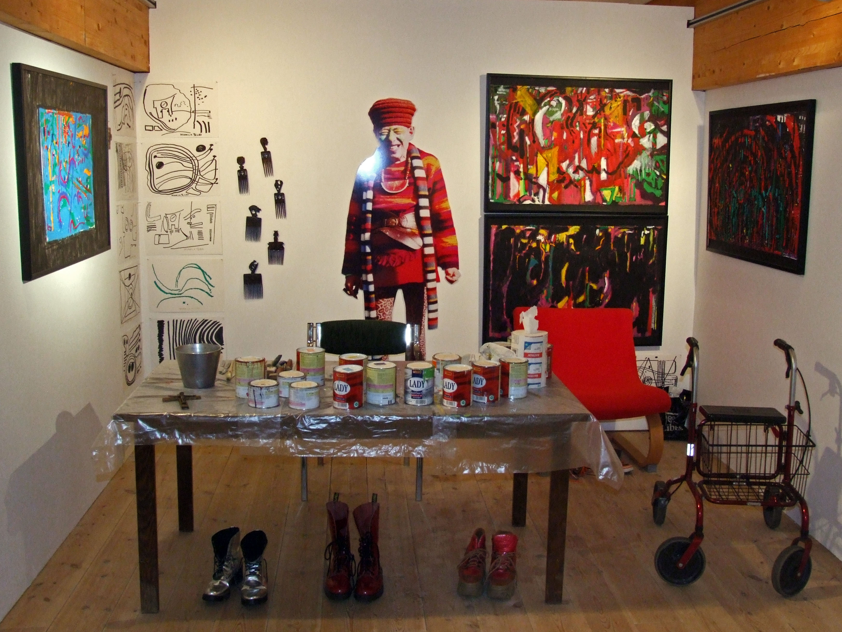 From the exhibition of Norwegian artist Tatjana Lars Kristian Gulbrandsen in Flekkefjord.